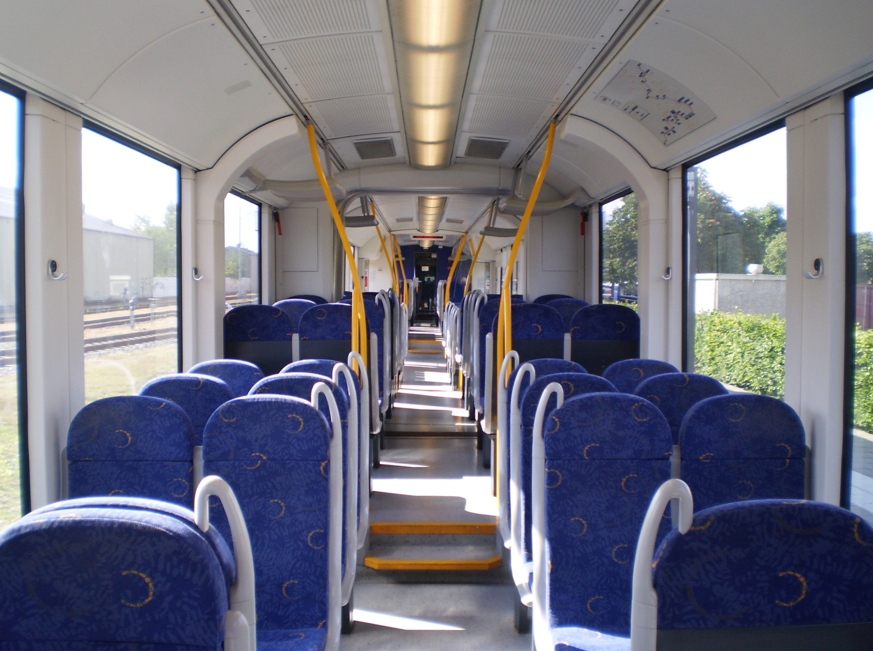 Interior of of an Alstom LHB Coradia LINT train of Dutch rail transport company Syntus